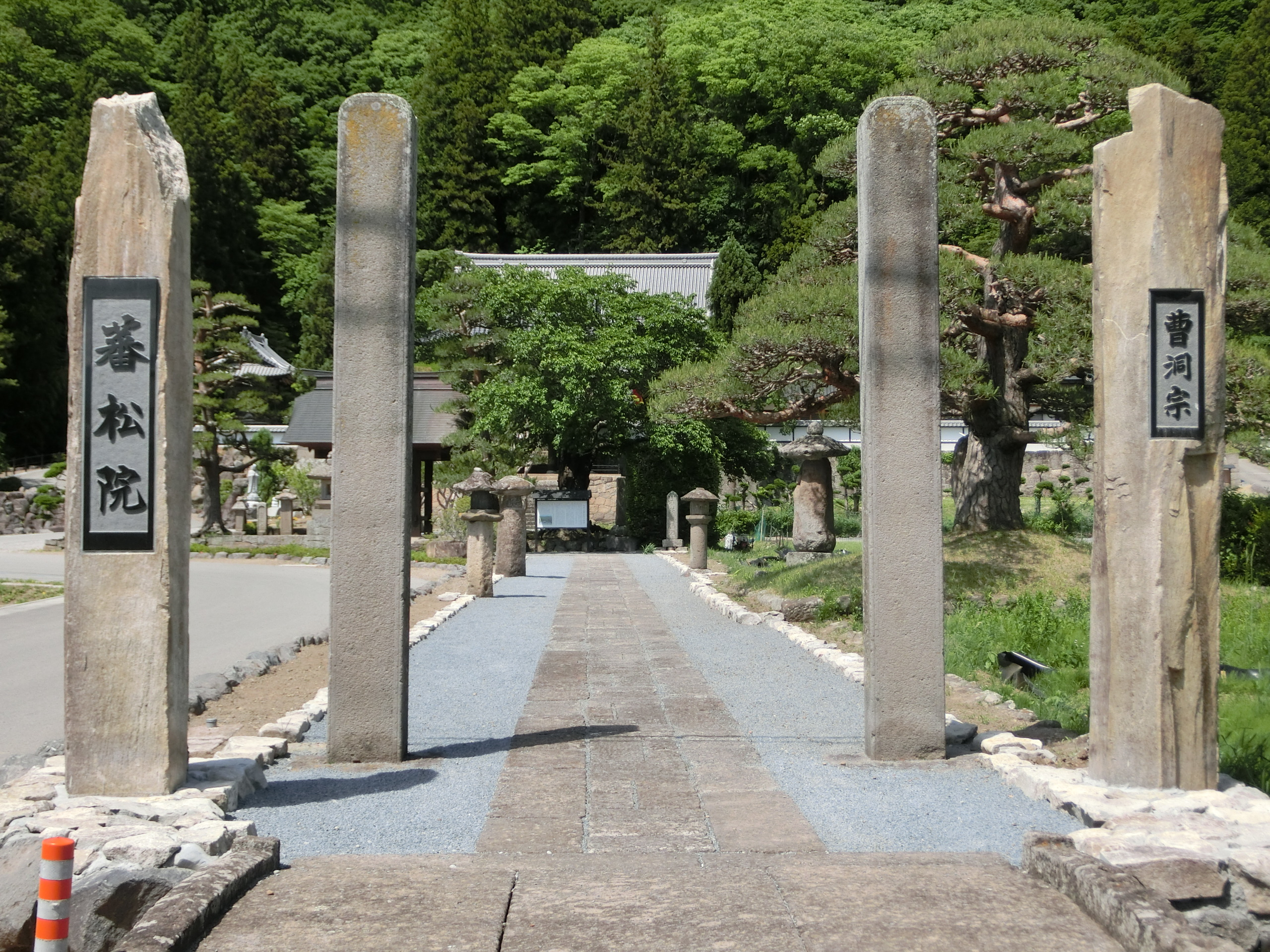 Bansho-in (Saku)